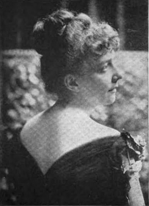 Georgine Campbell